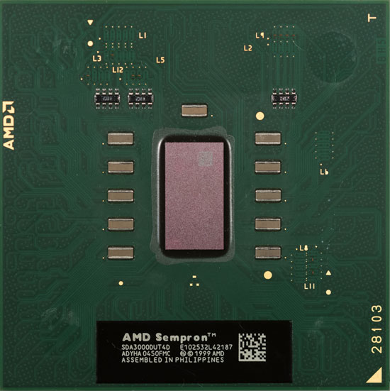 Top view of SDA30000DUT4D (AMD Semperon 3000+)